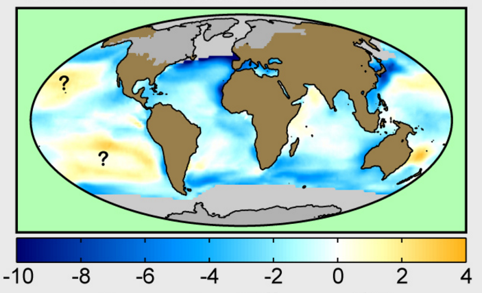 Non-language version of File:CLIMAP.jpg by User:Dragons flight